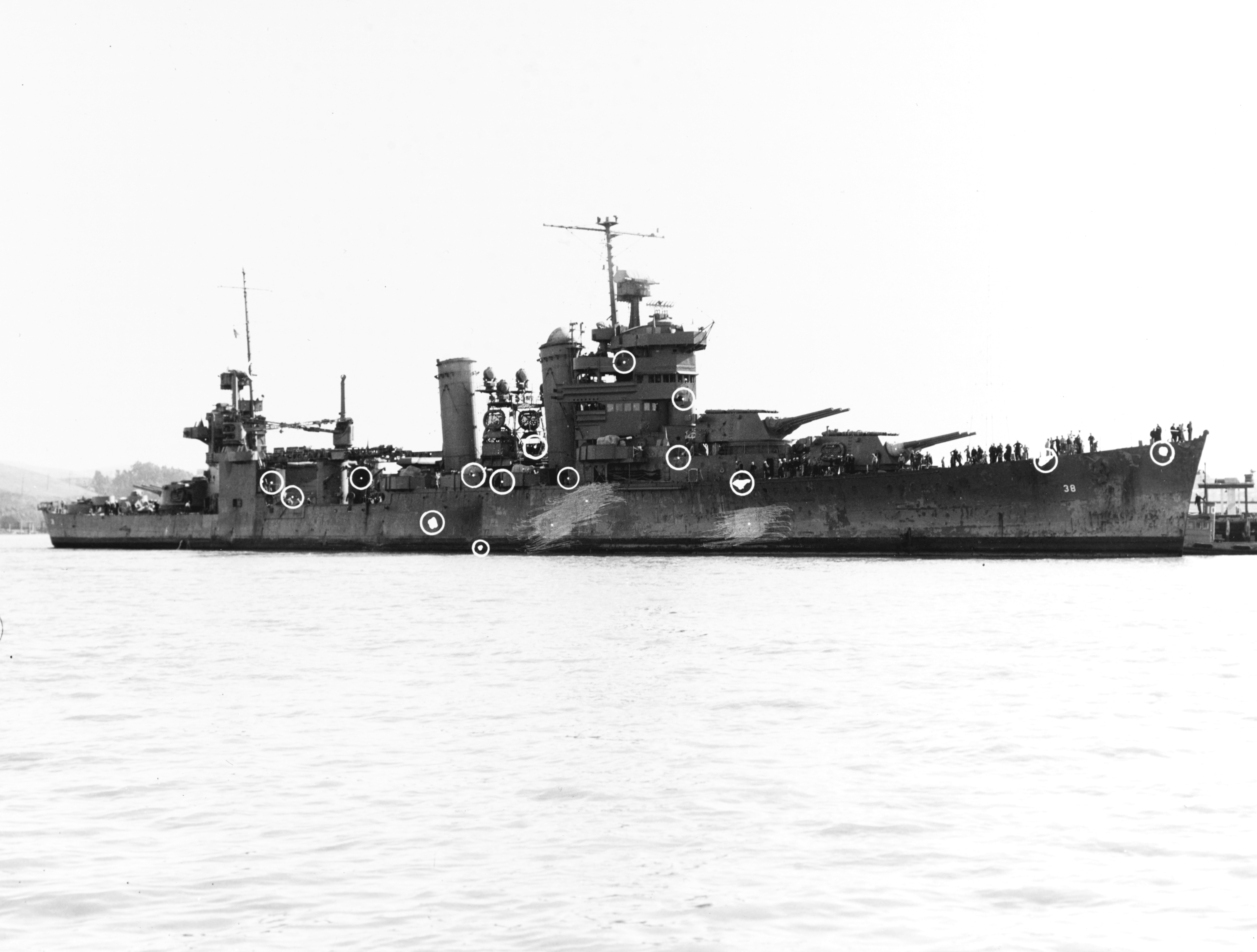 The U.S. Navy heavy cruiser USS San Francisco (CA-38) at the Mare Island Navy Yard, California (USA), for battle damage repairs, 14 December 1942. Circles mark the location of some of the shell hits she received on 13 November 1942, during the Naval Battle of Guadalcanal.